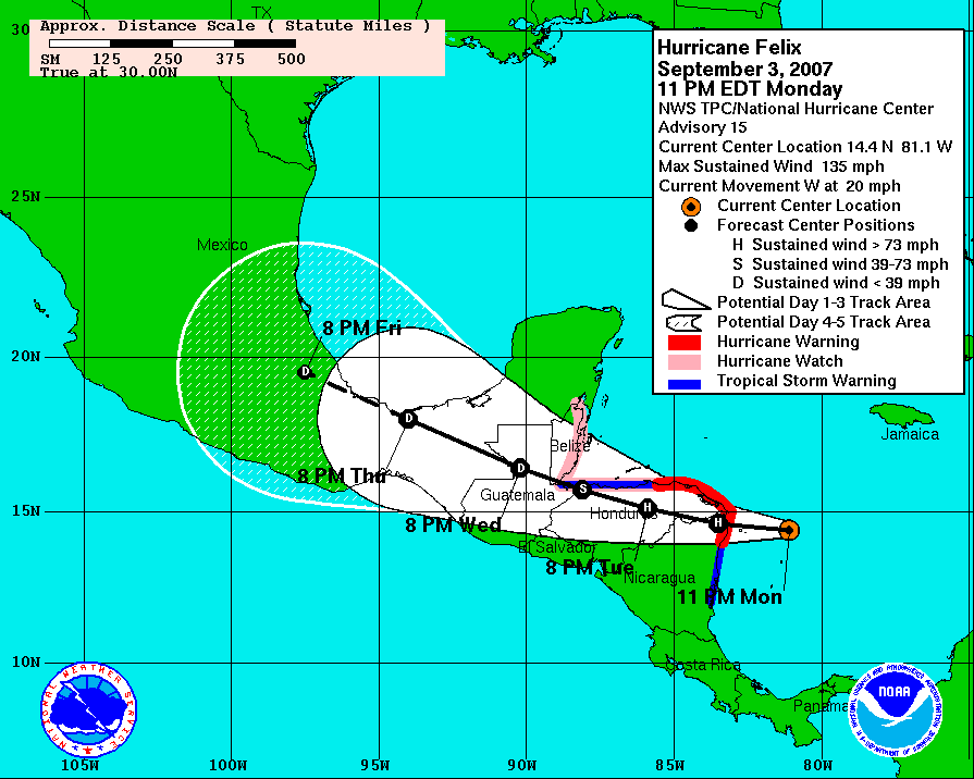 Hurricane Felix on September 03, 2007 (11:00 AST)